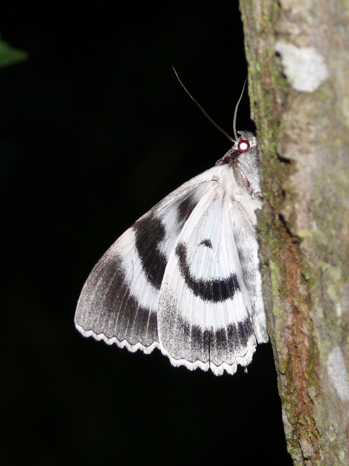 Blue Underwing, Perlacher Forst, Munich Aufgenommen bei einer Exkursion des Arbeitskreises Schmetterlinge der Kreisgruppe München beim Landesbund für Vogelschutz (LBV).